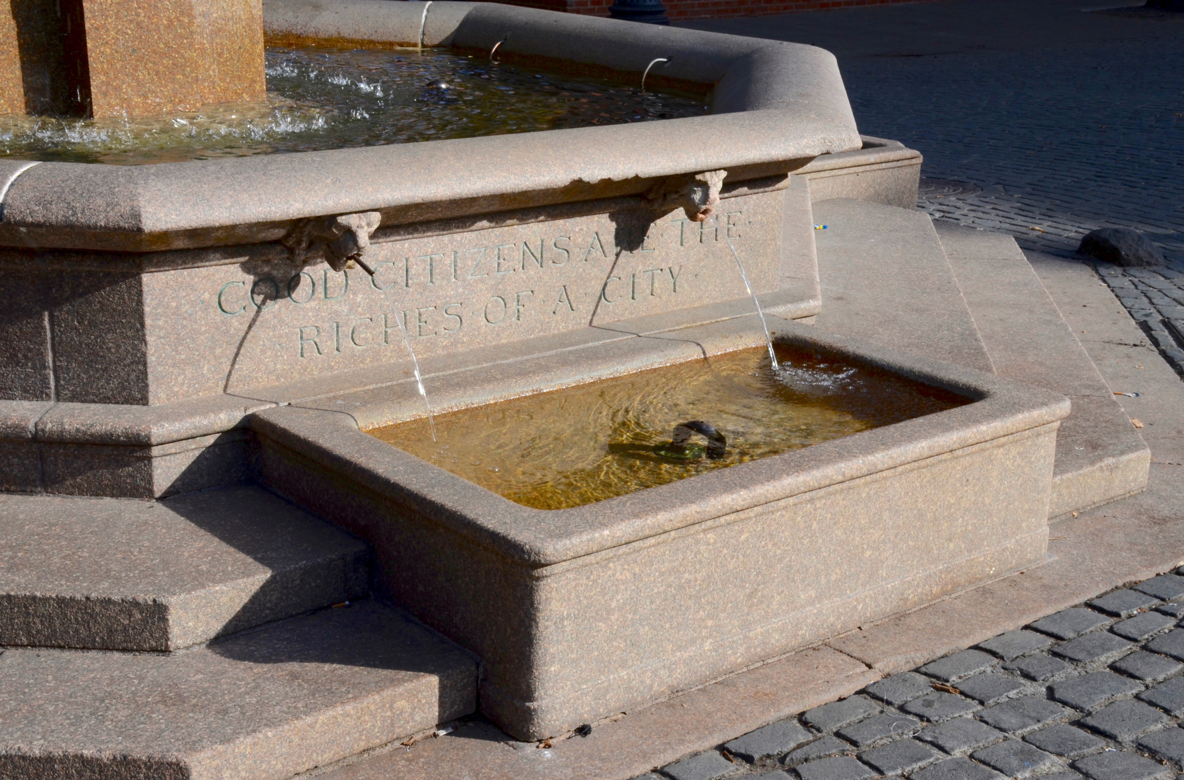 Skidmore Fountain, in Portland, Oregon. The inscription on this side of the fountain's base, "Good citizens are the riches of a city", is a quotation from C.E.S. Wood.